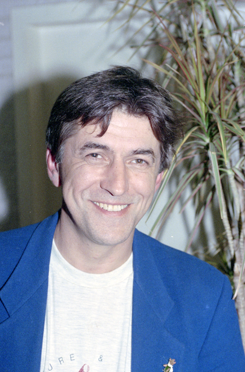 Bartho Braat